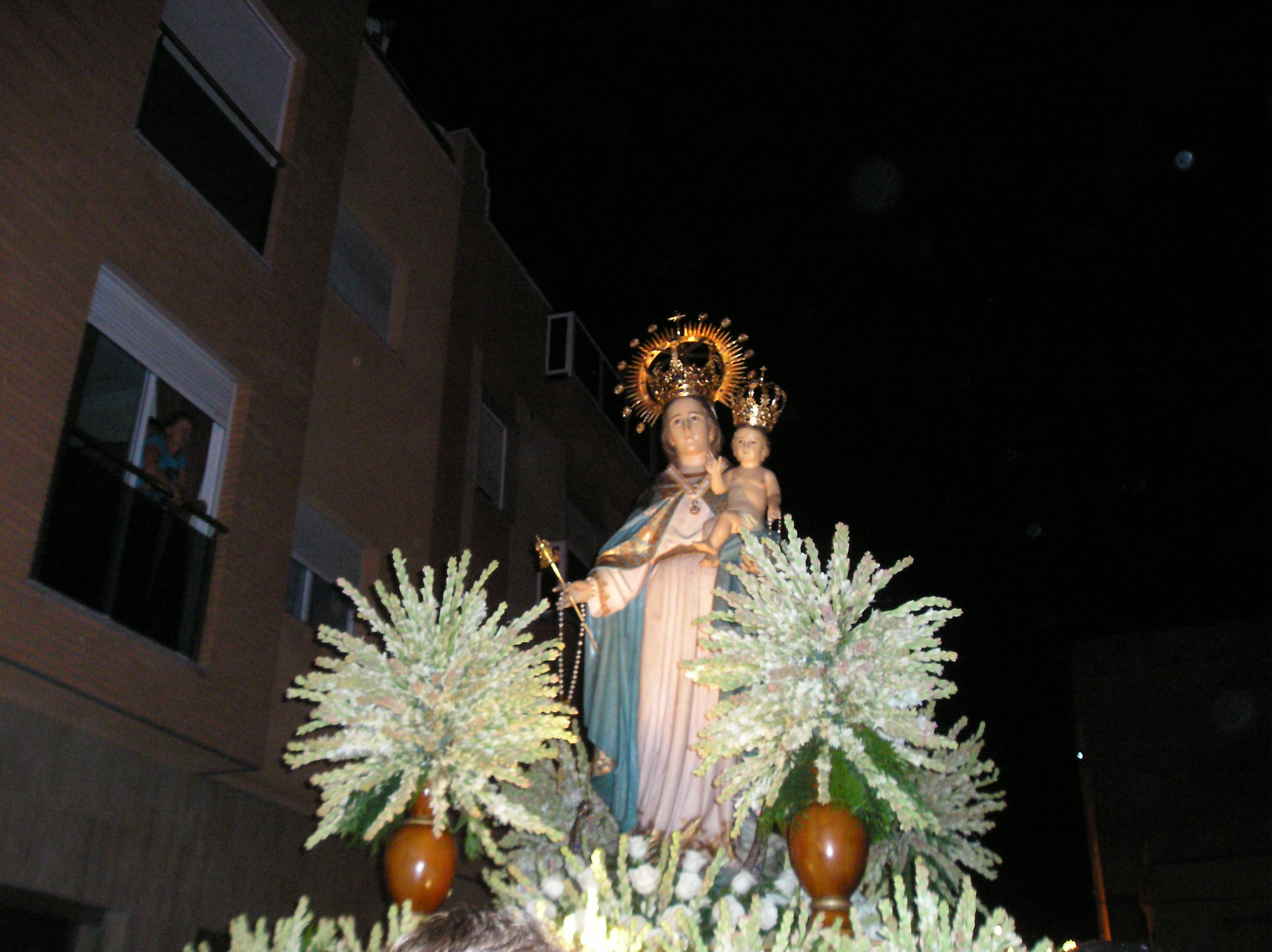 Ntra. Sra. del Rosario en procesión.